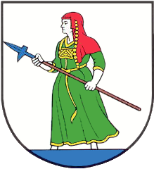 Coat of arms of the German municipality Nordhastedt.